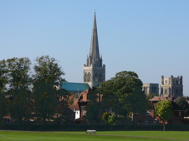 View across Priory Park to the Cathedral